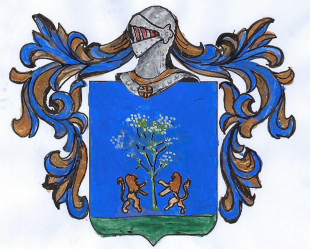 Two lions Affronté a cummin plant